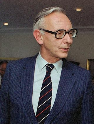 Max van der Stoel. Minister of Foreign Affairs of the Netherlands from 1973 until 1977 and from 1981 until 1982.